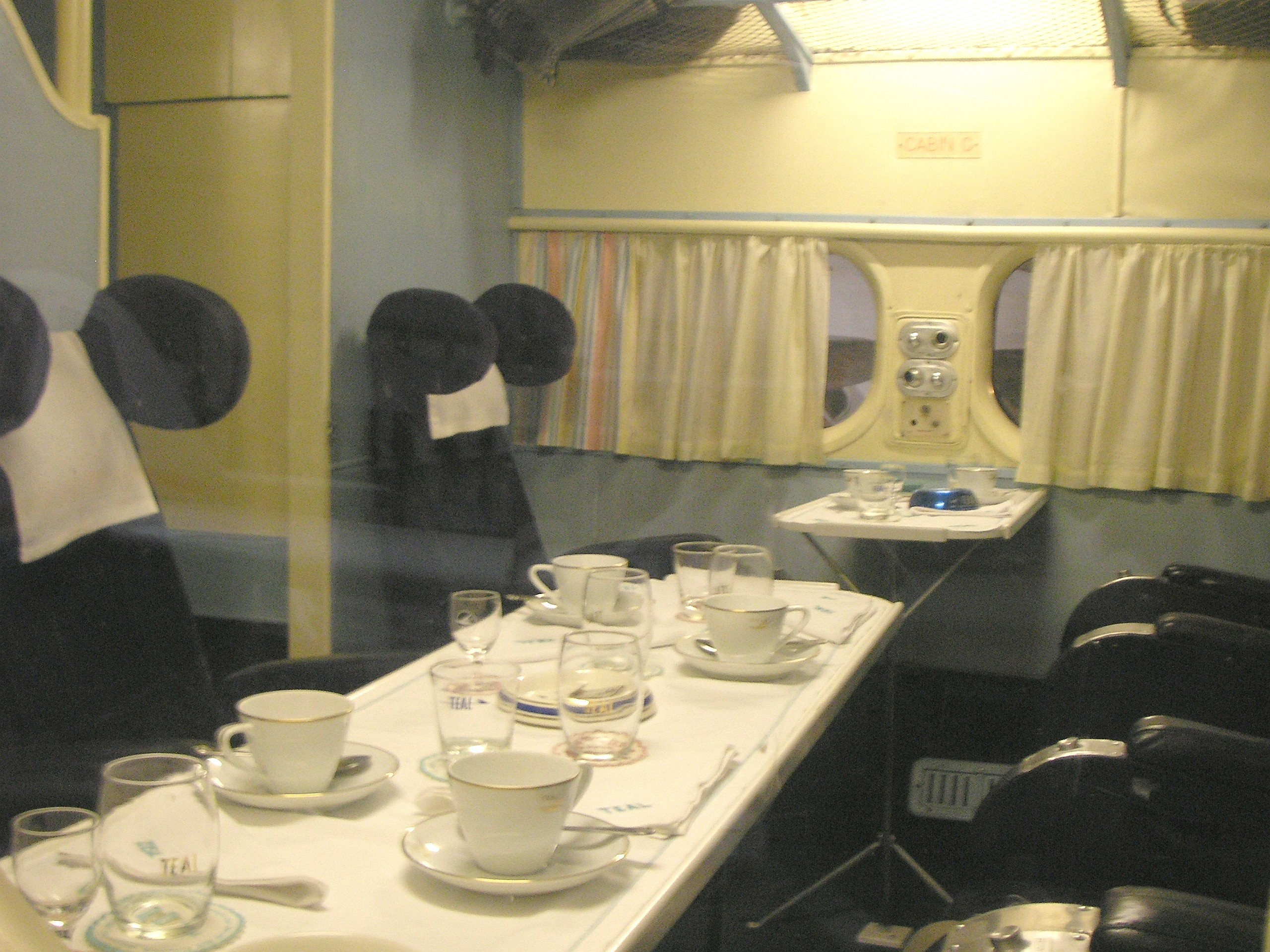 Interior of TEAL Short Solent Flying boat preserved at the Museum of Transport and Technology, Auckland.